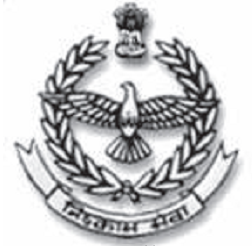 The Delhi Home Guards has been raised under the Bombay Home Guards Act, 1947 as extended to GNCTD of Delhi (UT) in 1959. The Delhi Home Guards Rules were framed in 1959.